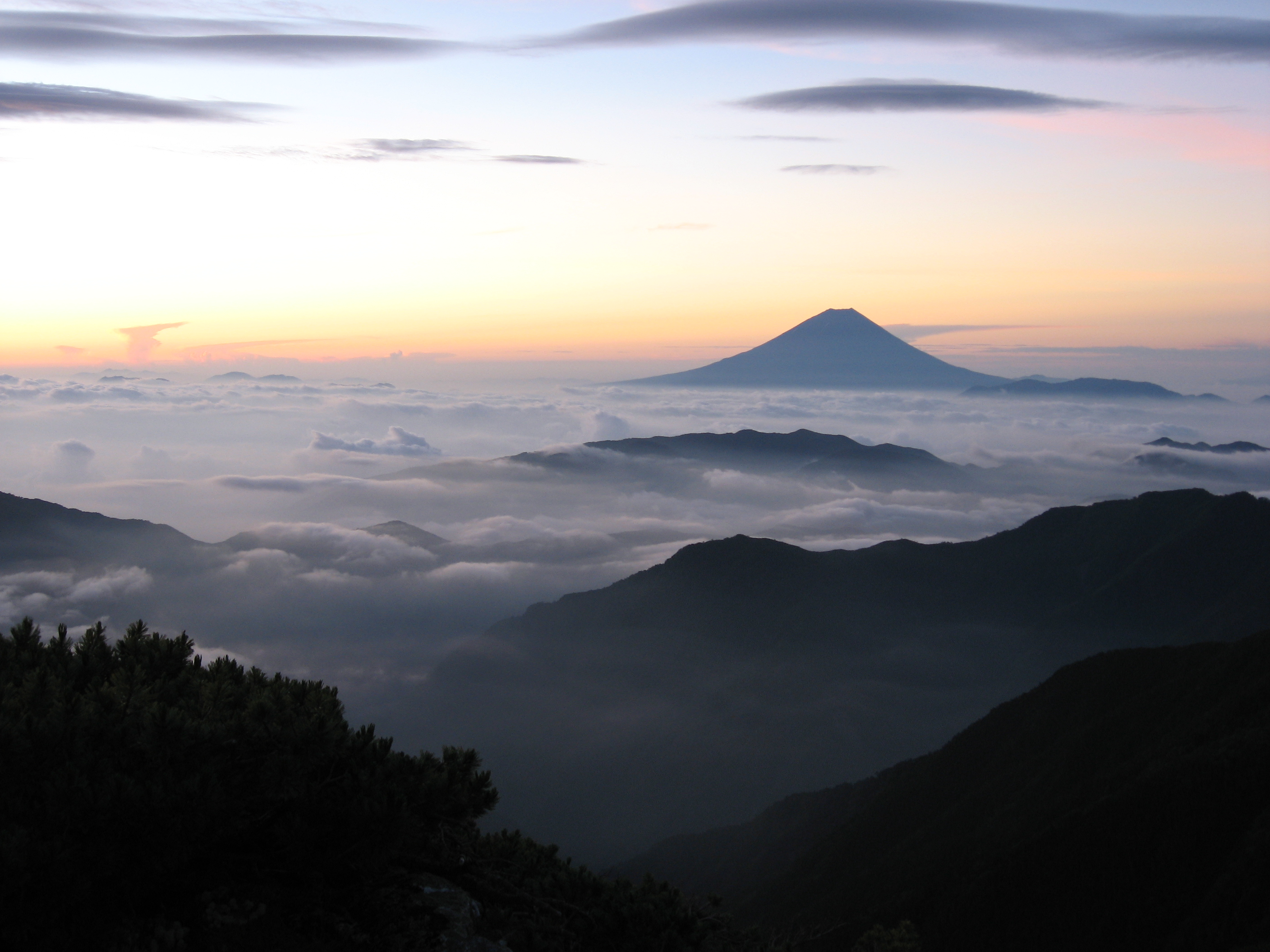 Mt.Fuji as seen from south side of Mt.Kitadake (Kita-dake), the second highest mountain in Japan.